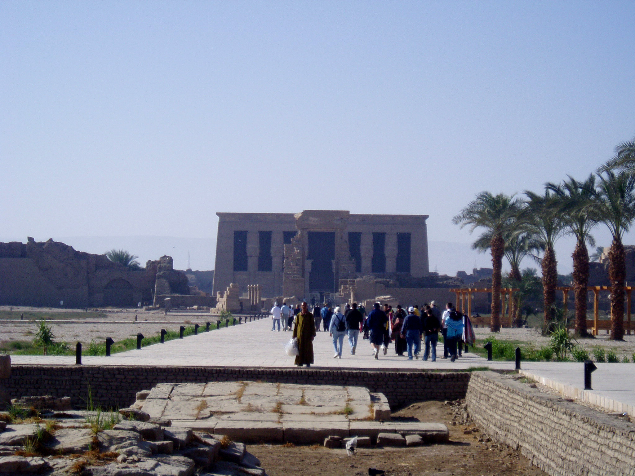 Temple of Dendera, Egypt